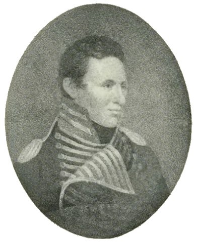 Illustration in History of Iowa From the Earliest Times to the Beginning of the Twentieth Century